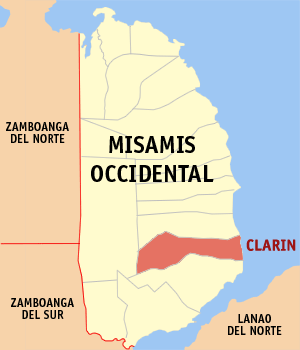 Map of the Misamis Occidental showing the location of Clarin